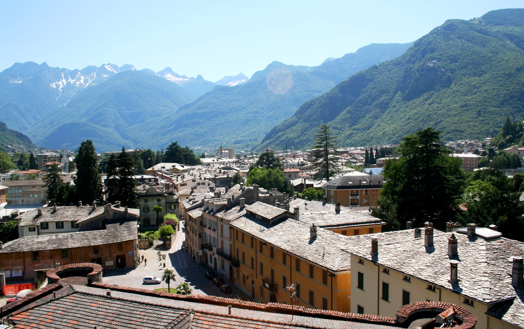 Chiavenna from the north, showing two Salis houses, one greenish, in front, the other pinkish, to the right.